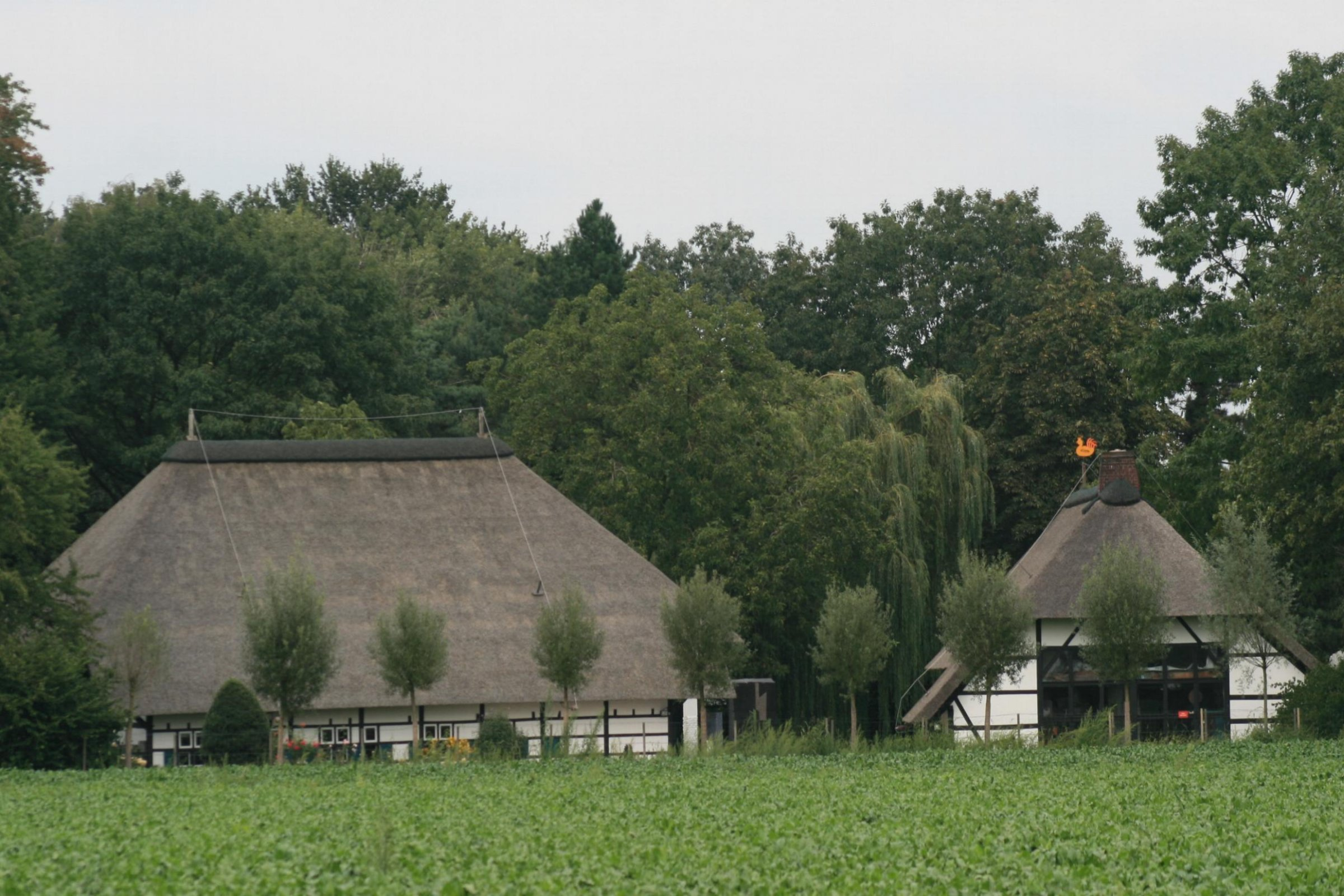 Cultural heritage monument No. U 009 in Mönchengladbach